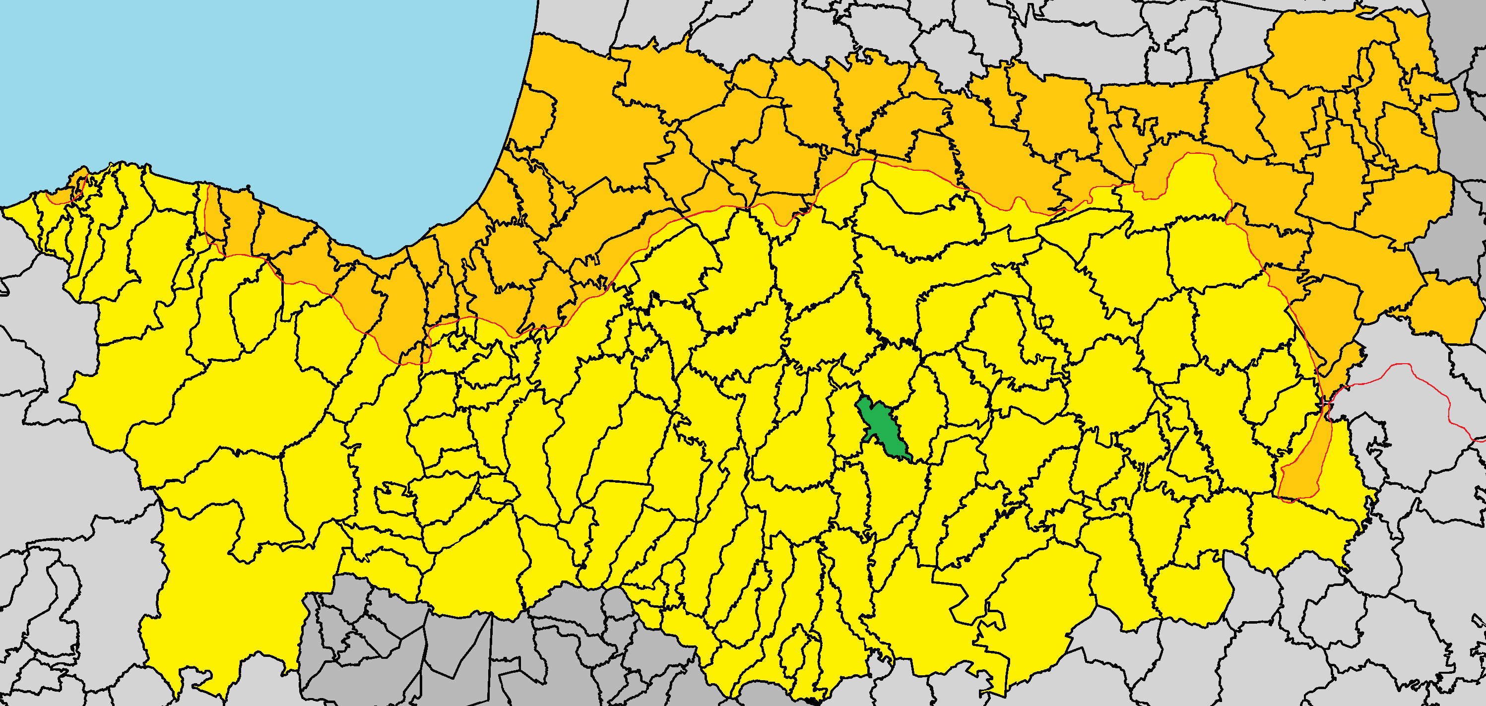 Malounta in Nicosia District (de jure).